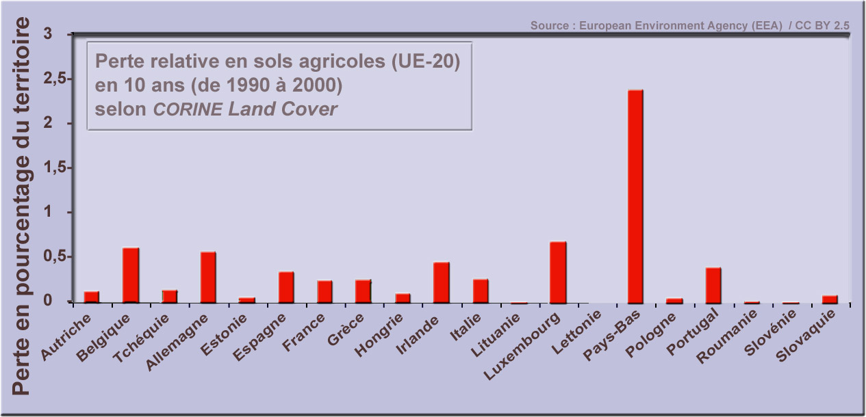 Relative losses of agricultural areas to urbanisation (EEA) Graph showing estimated loss of agricultural land in 20 EU countries due to urbanization between 1990 and 2000 based on an analysis of CORINE Land Cover Data Source : EEA, CC-by-2.5, retrieved 2011-10-22